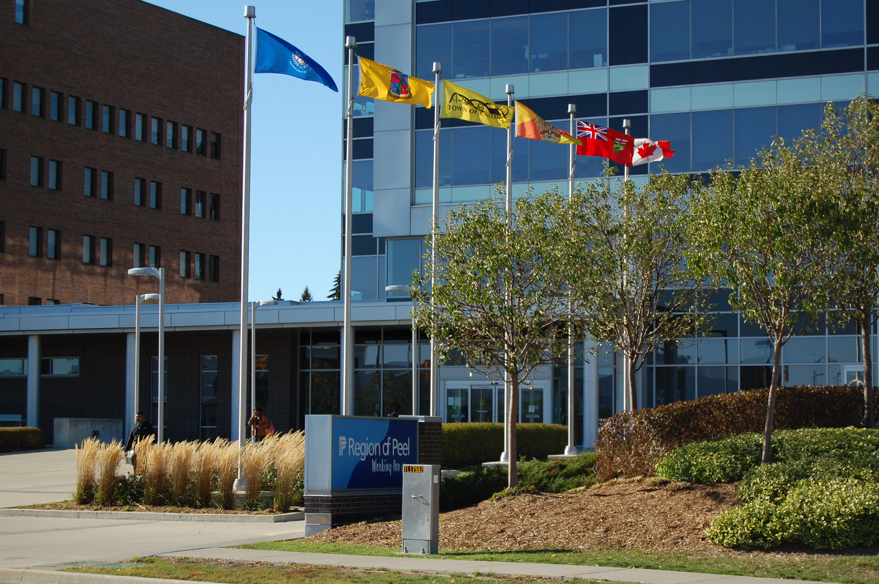 Region of Peel local government office in Brampton